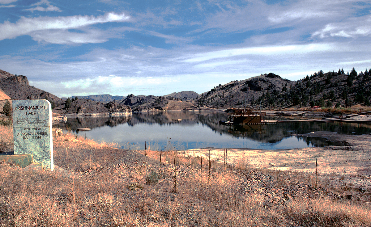 Krishnamurti Lake Dedication stone along road to Rajneeshpuram reads: KRISHNAMURTI LAKE Reservoir Area 44 Acres Catchment Area 36 Square Miles Capacity 360,000,000 Gallons Dedicated to BHAGWAN SHREE RAJNEESH